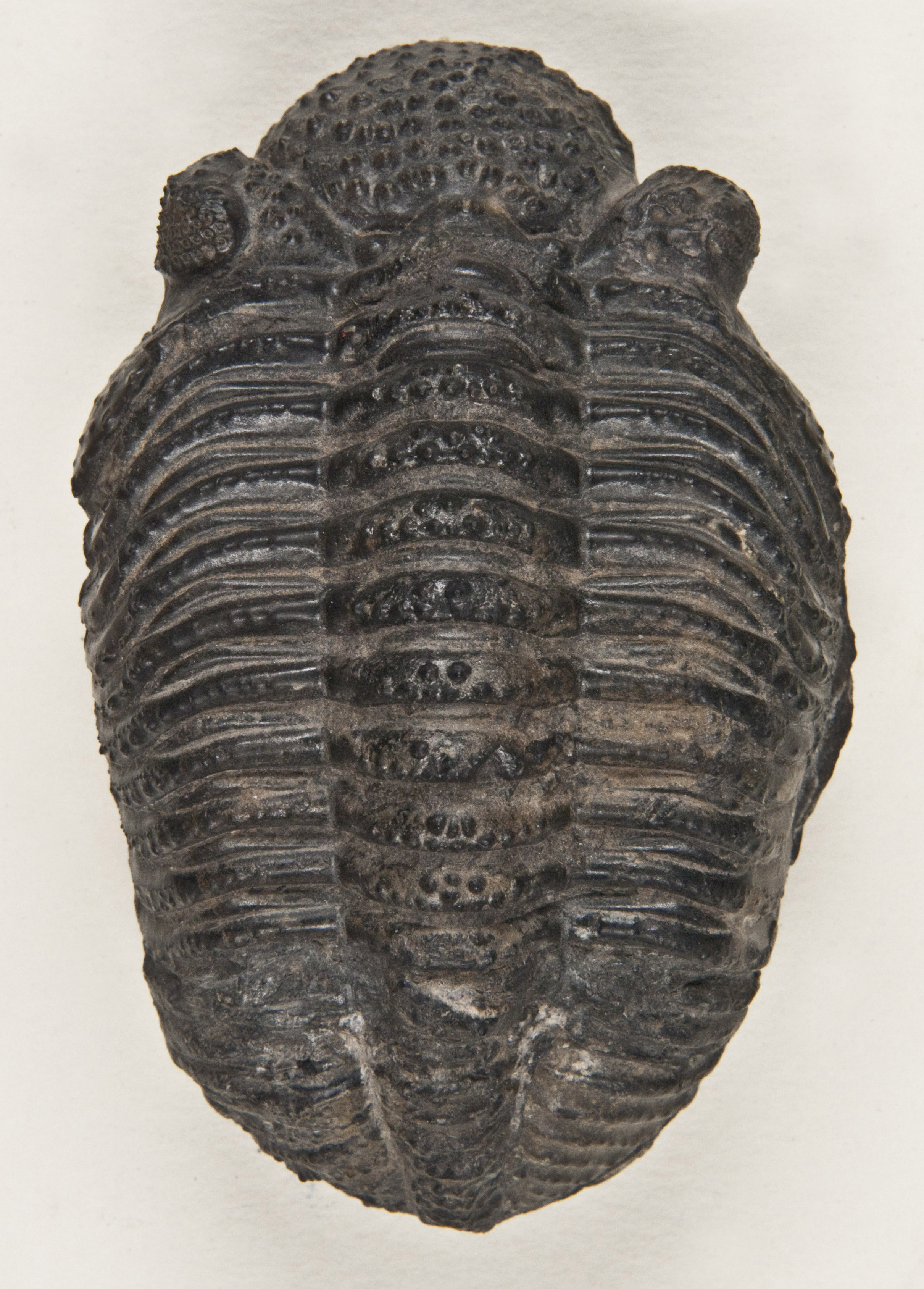 Moroccan trilobite Drotops megalomanicus (Order Phacopida, Family Phacopidae) of the Devonian Period.